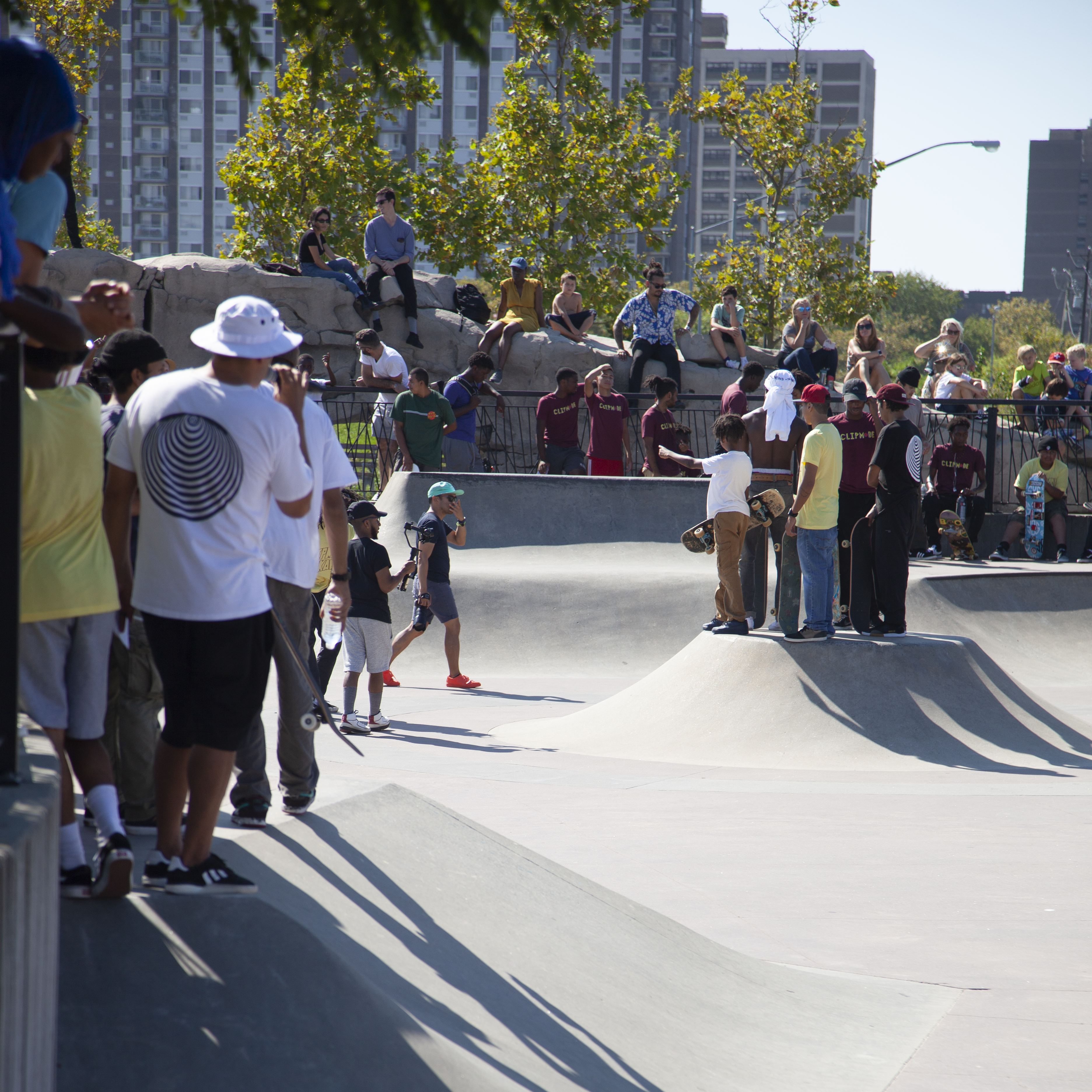 an interested audience watches at the Battle of the Beach 2 - Far Rockaway Skatepark - September - 2019